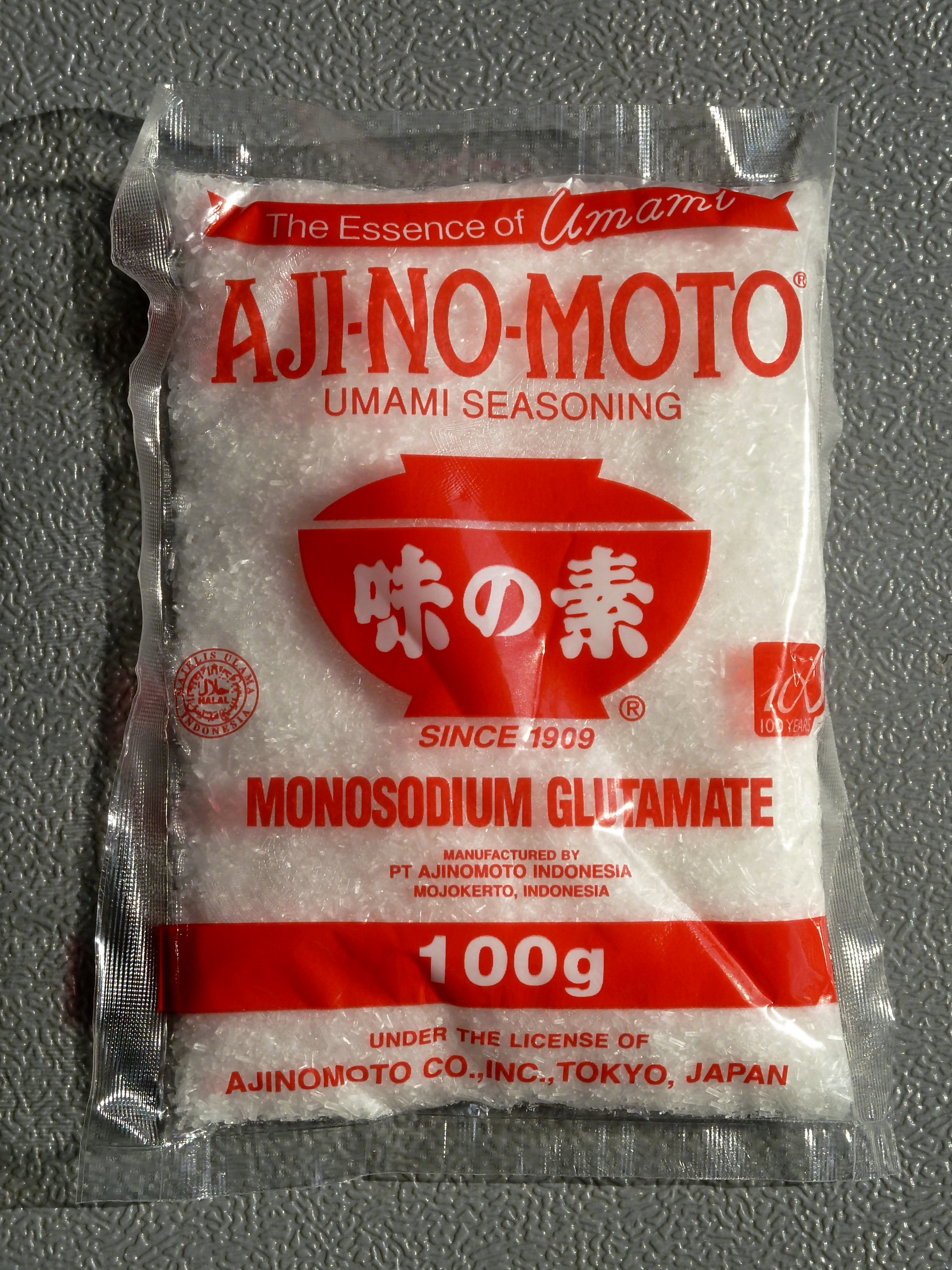 Ajinomoto labeled bag containing 100 g of monosodium glutamate